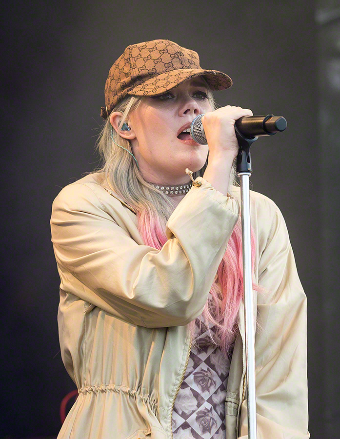 Little Jinder at the minor stage during Stavernfestivalen in Stavern on 07. July 2016. Lineup:Astrid Maria Josefine Jinder (vocal)Unidentified (drums)Unidentified (keyboard)Unidentified (vocal)Unidentified (vocal)